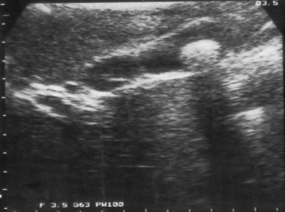 Ultrasound image of large gallbladder stone with acoustic shadow